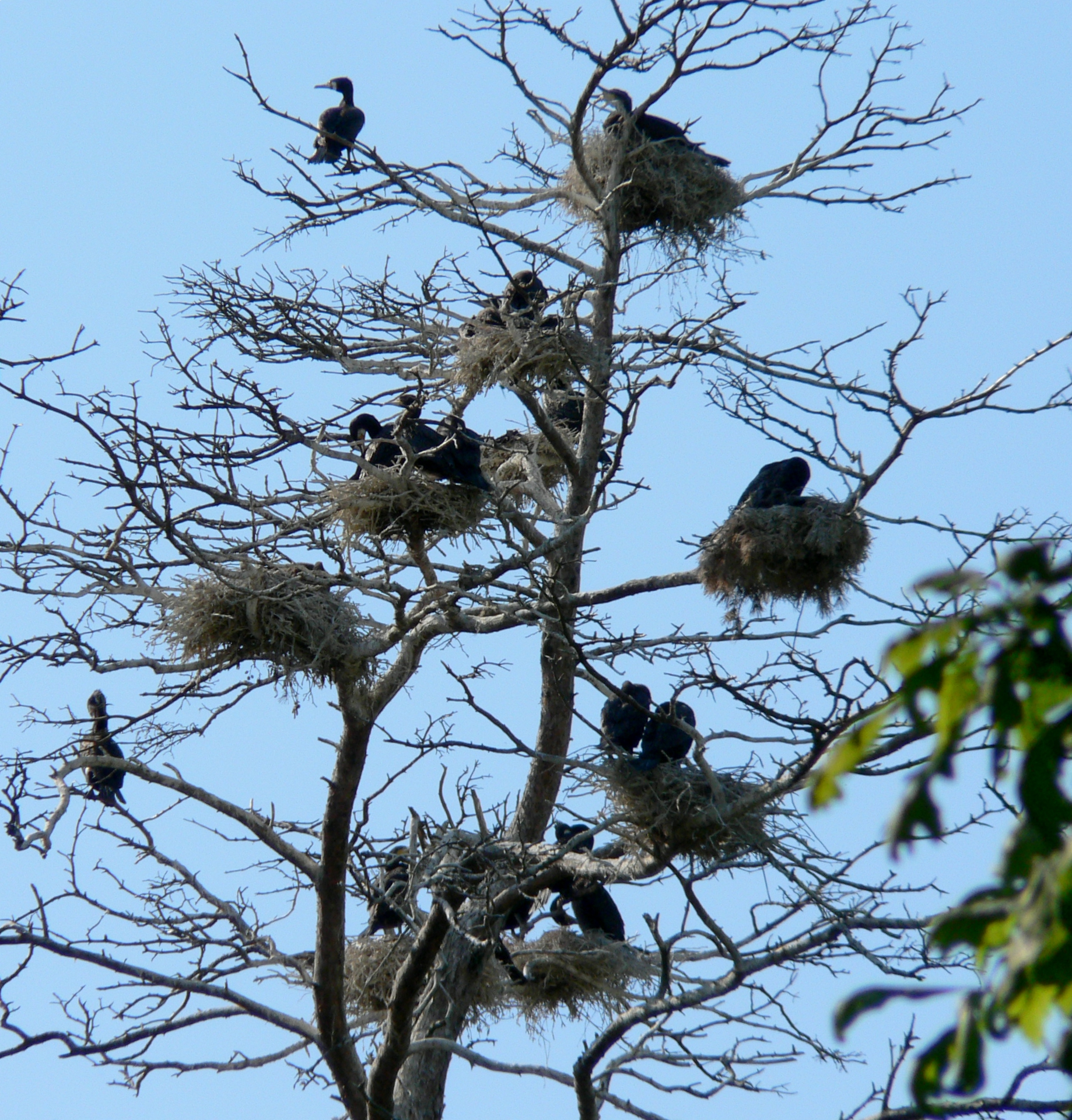 Great Cormorant nests on the dead trees east of Juodkrantė, Lithuania